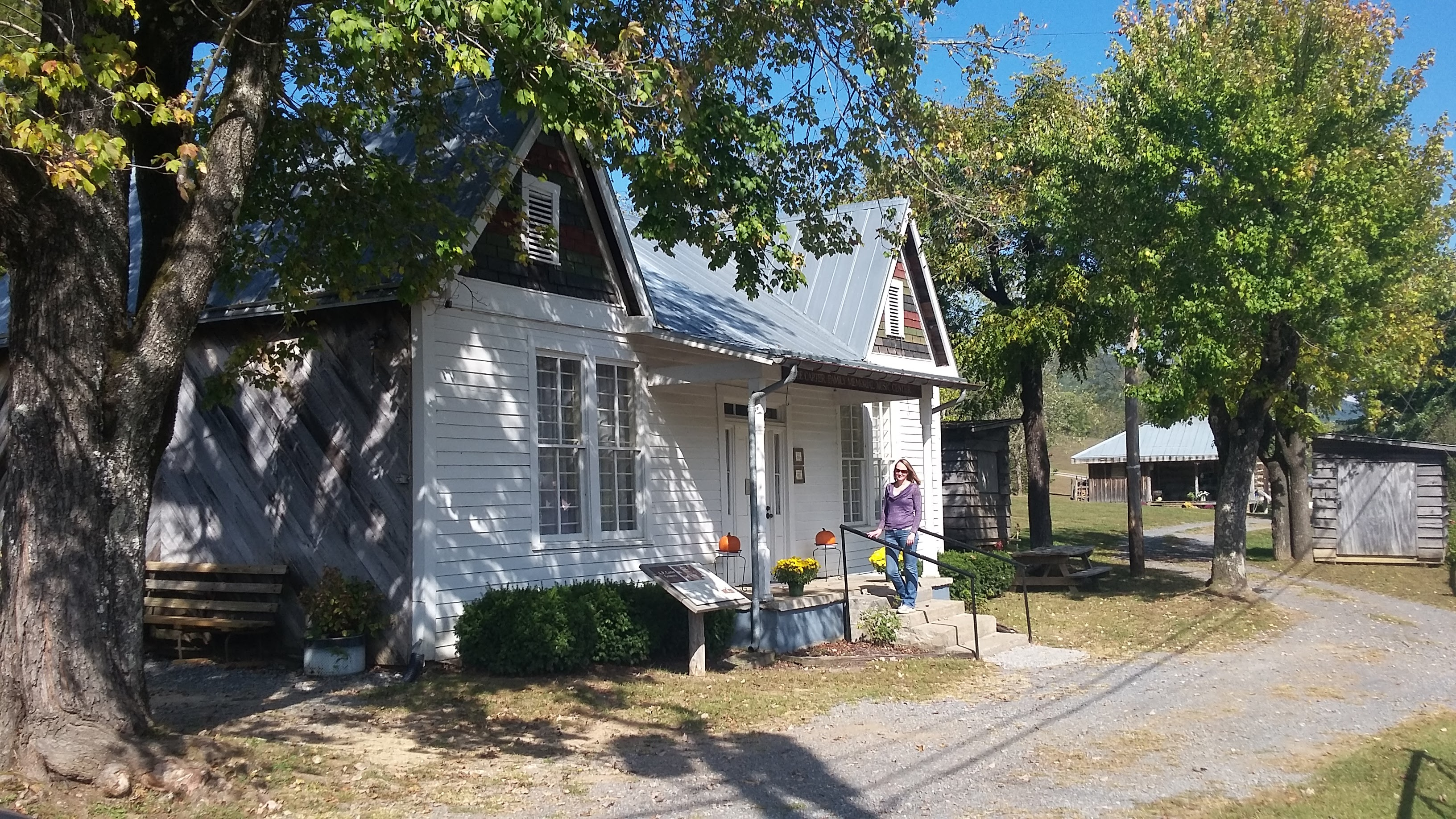 A.P. Carter General Store Museum at the Carter Fold at Maces Springs, Virginia now Hiltons, Virginia. Founder of the pioneering Carter Family country music group.